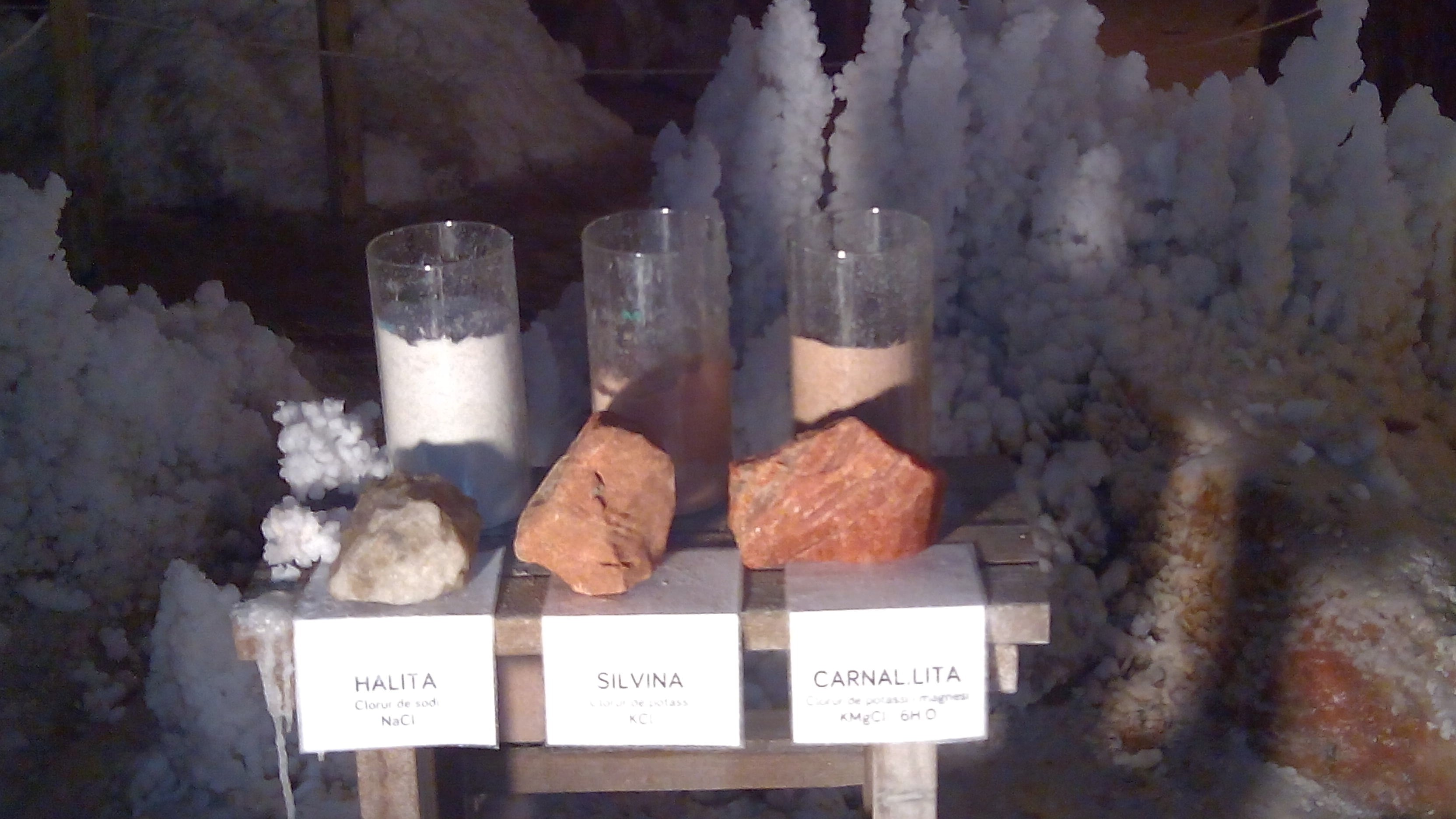 Three salt types present in Cardona Salt Mountain